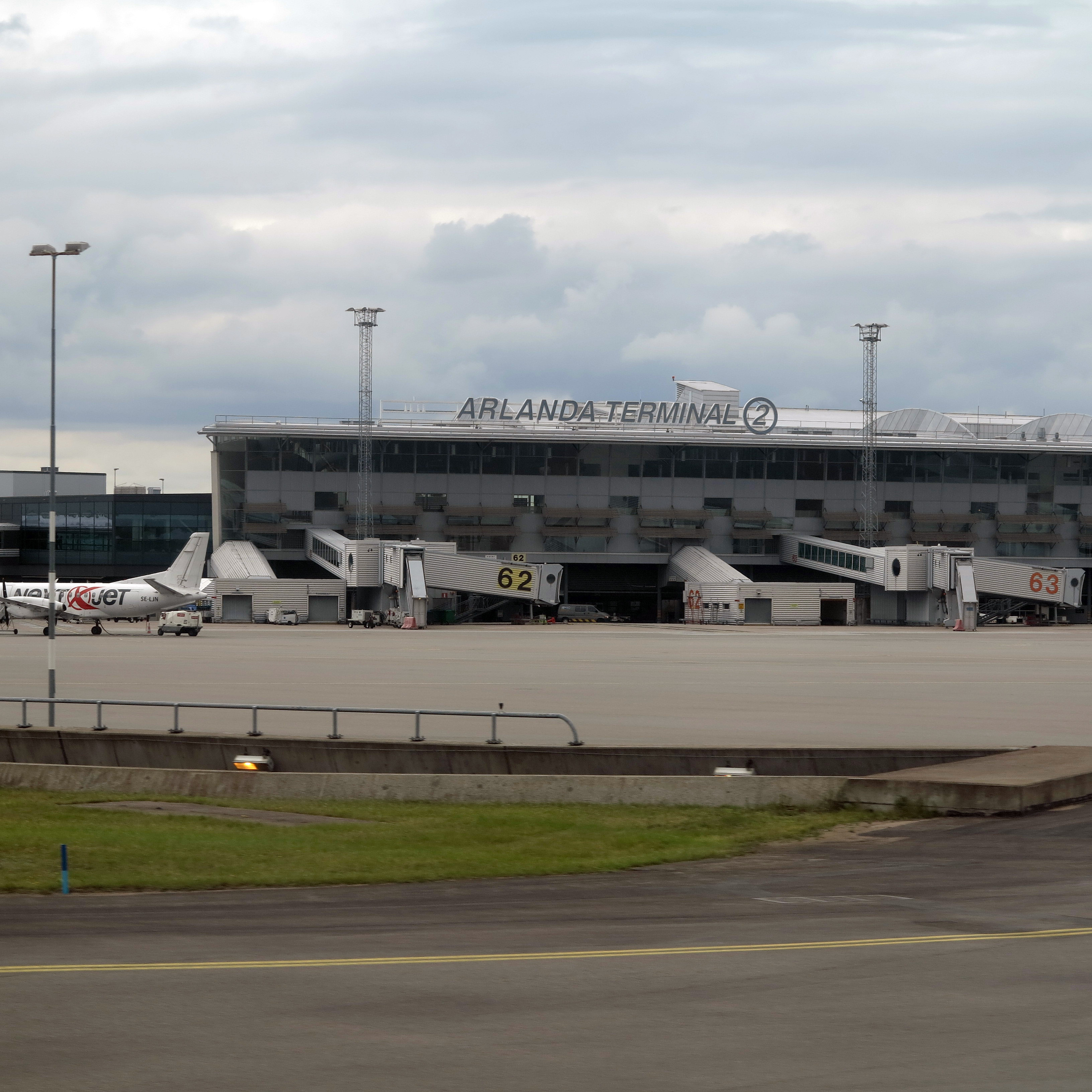 Arlanda Terminal 2 building